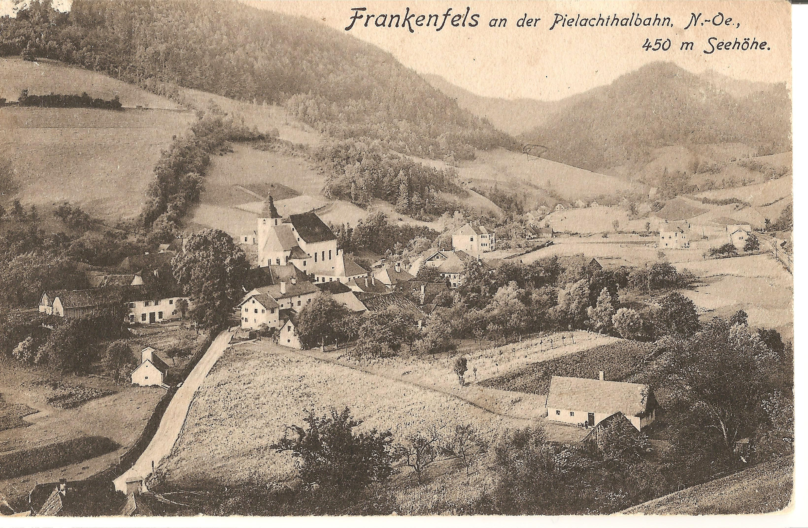 Postcard of Frankenfels 1908